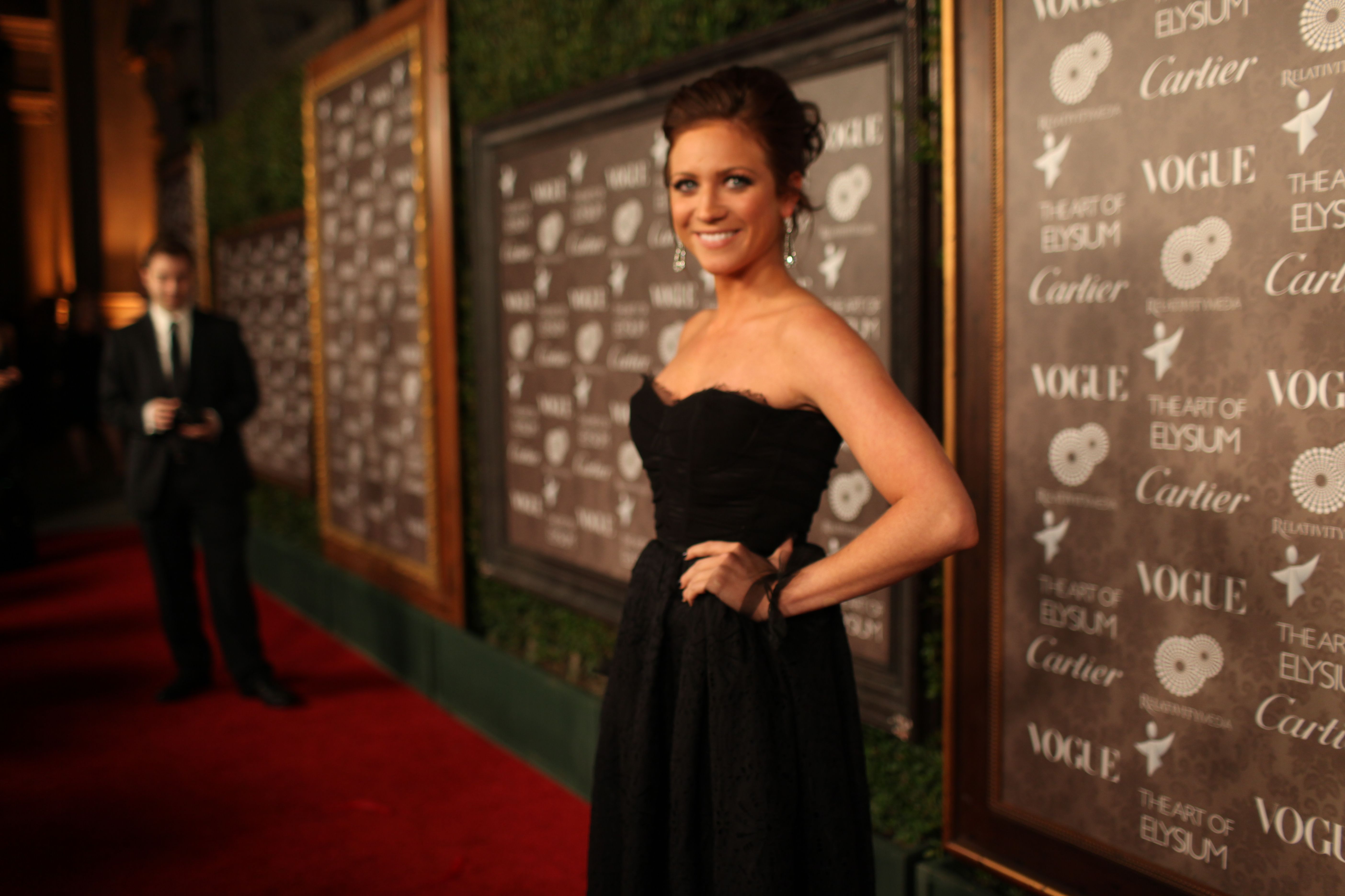 Art of Elysium Heaven & Hell Gala 2009 - Brittany Snow